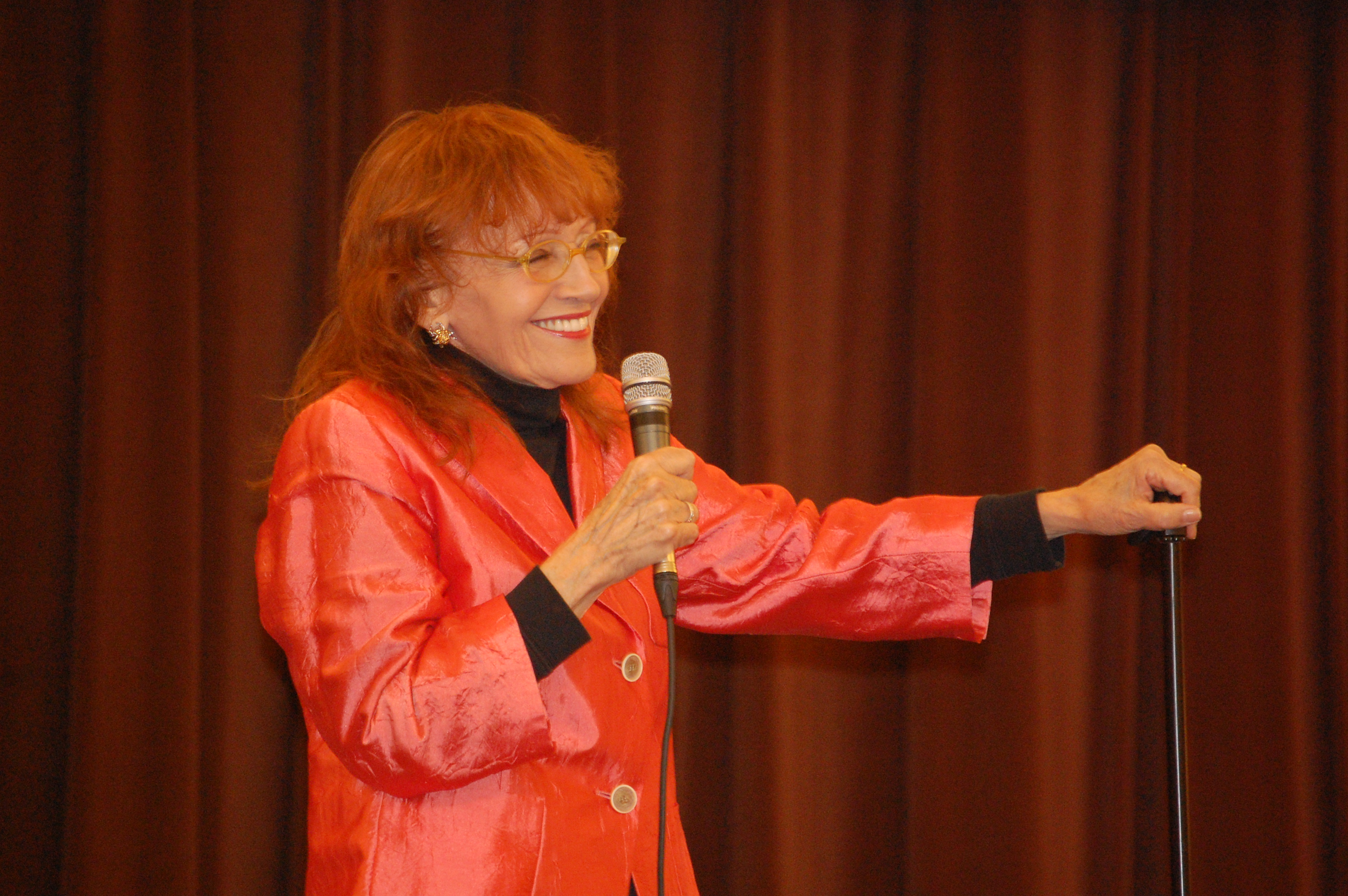 Adrianne Tolsch on stage October 2015